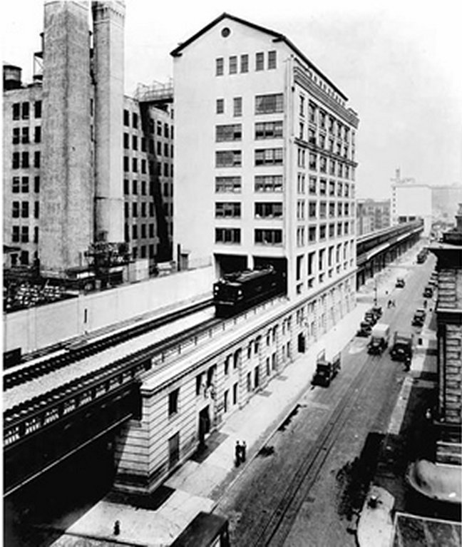 The Western Electric complex, now called Westbeth, seen from Washington Street, with train on High Line in 1936.